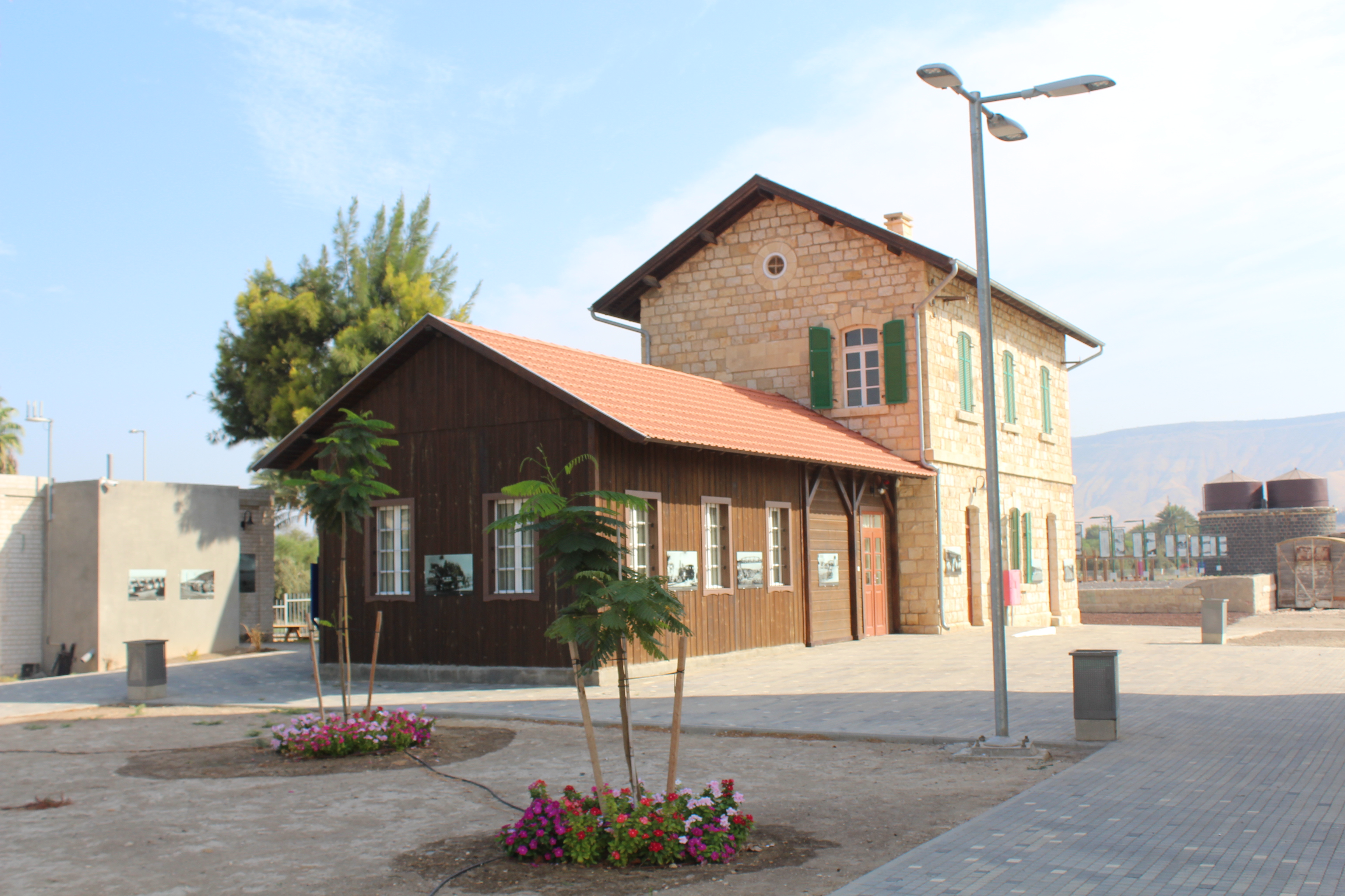 The Tzemah Railway Station (originally Samakh) was the seventh of the eight original stations on The Tzemah Railway Station (originally Samakh) was the seventh of the eight original stations on the valley line. It served the village of Samakh. The station was damaged during the 1948 Arab–Israeli War, in the Battles of the Kinarot Valley. Starting in 2011, the station is undergoing extensive restoration work.